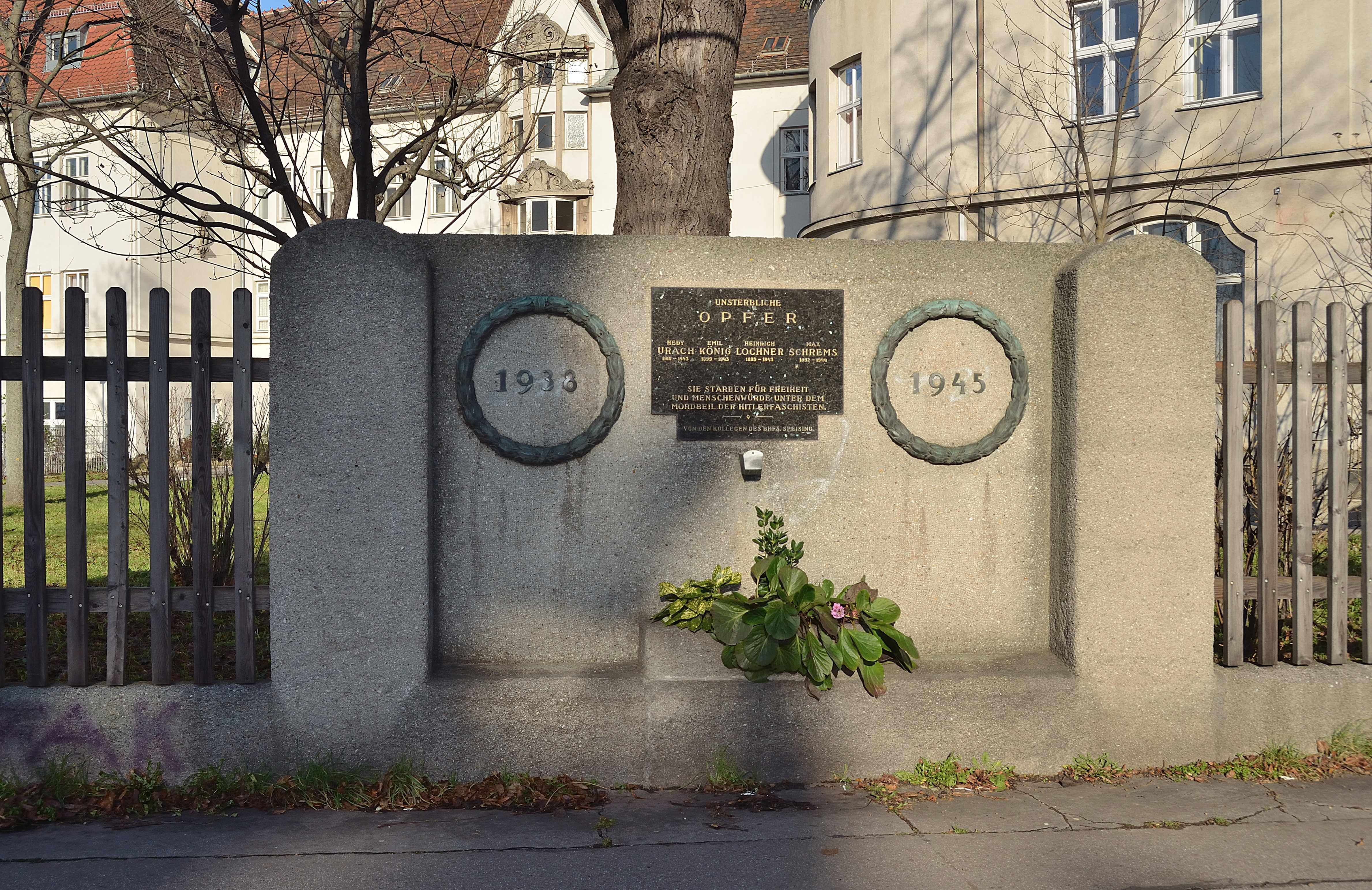 Administrative and residential building of the tram depot Speising, Hetzendorfer Straße 188, Hietzing, Vienna.